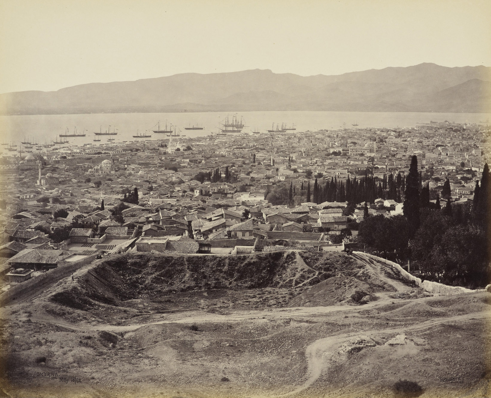 View of the town and harbour of İzmir in Turkey